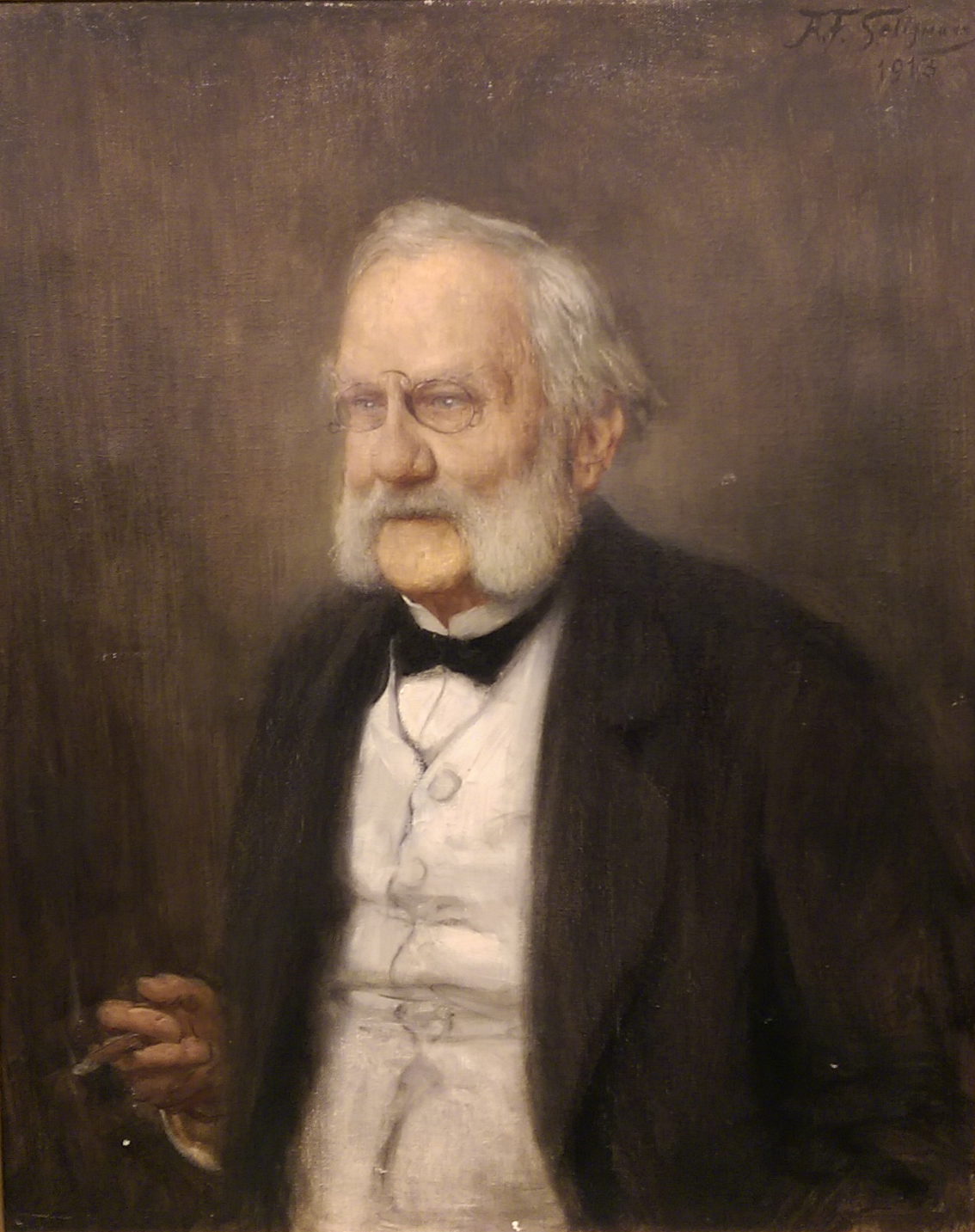 Joseph Unger (Adalbert Seligmann, 1913)